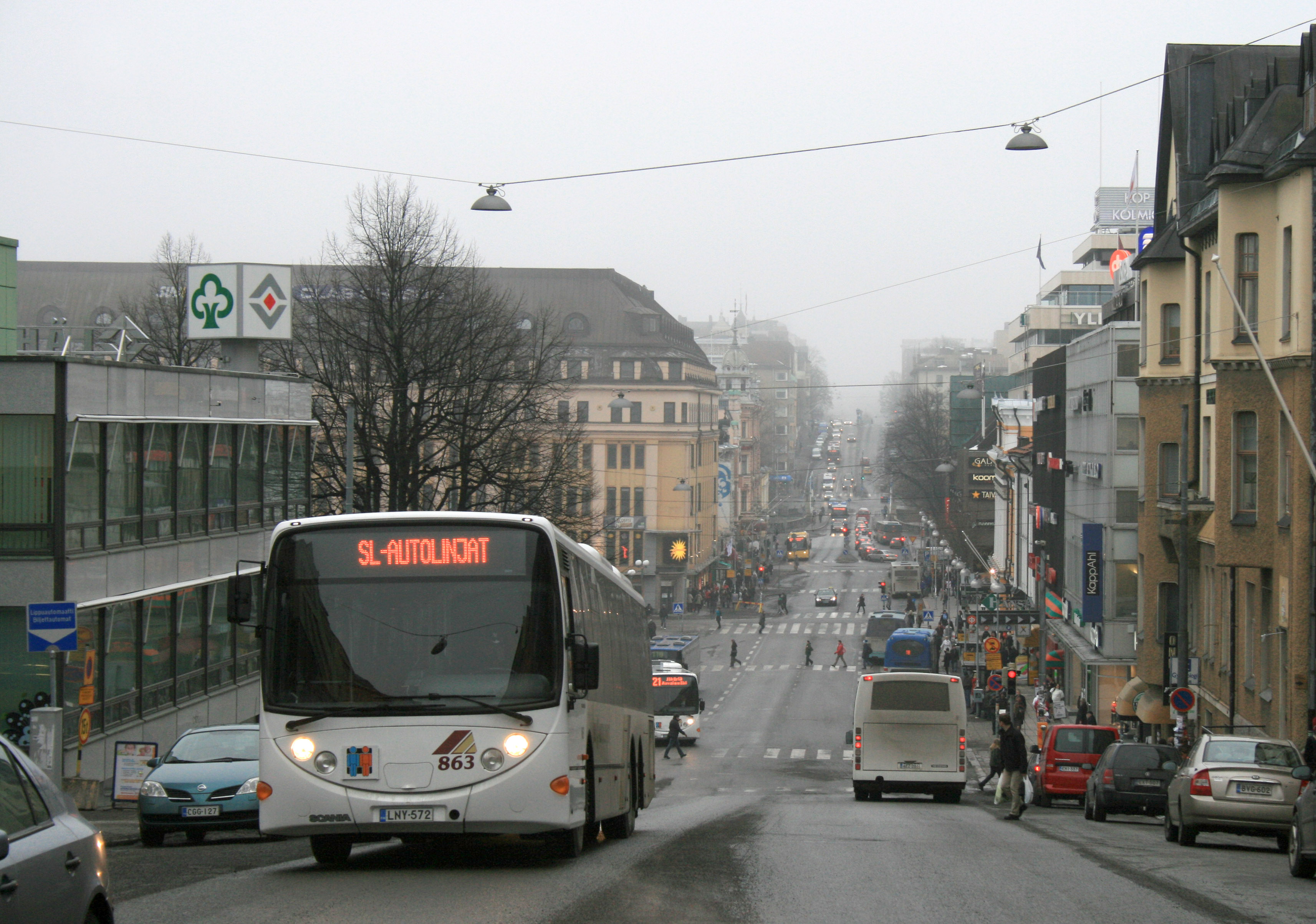 Aurakatu street in Turku. View from Turun Taidemuseo. Lahti Scala bus (#863) with Scania K-series chassis.